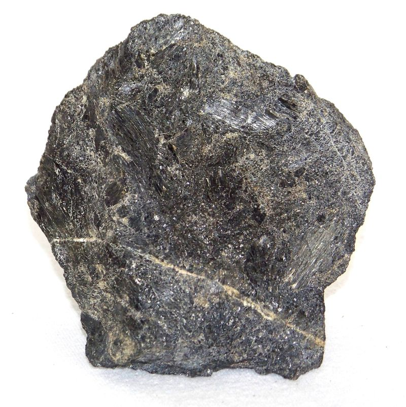 Hornblendite with apatite and piroxenes from Bystrzyca Górna in the Owl Mountains, Lower Silesia, Poland. This is oldest igneous rock from Poland, dated at 1.2 billion years.